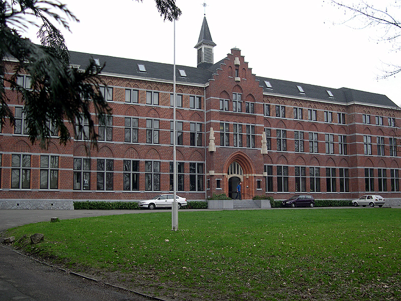 H.-Hartcollege Tervuren, main building